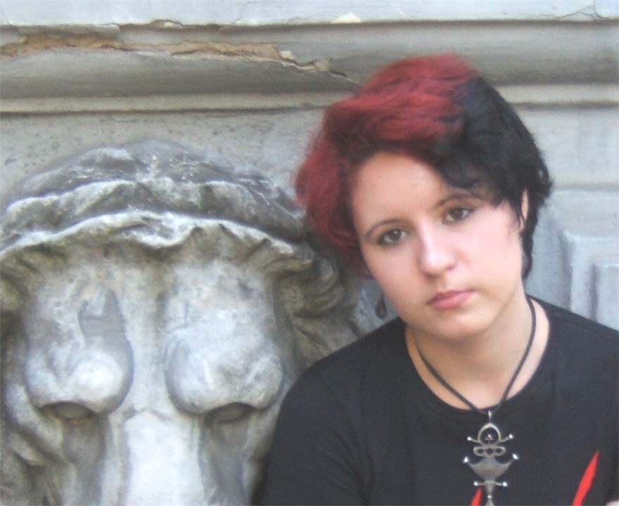 Linda Maria Baros. This image has been released into the public domain by its author.